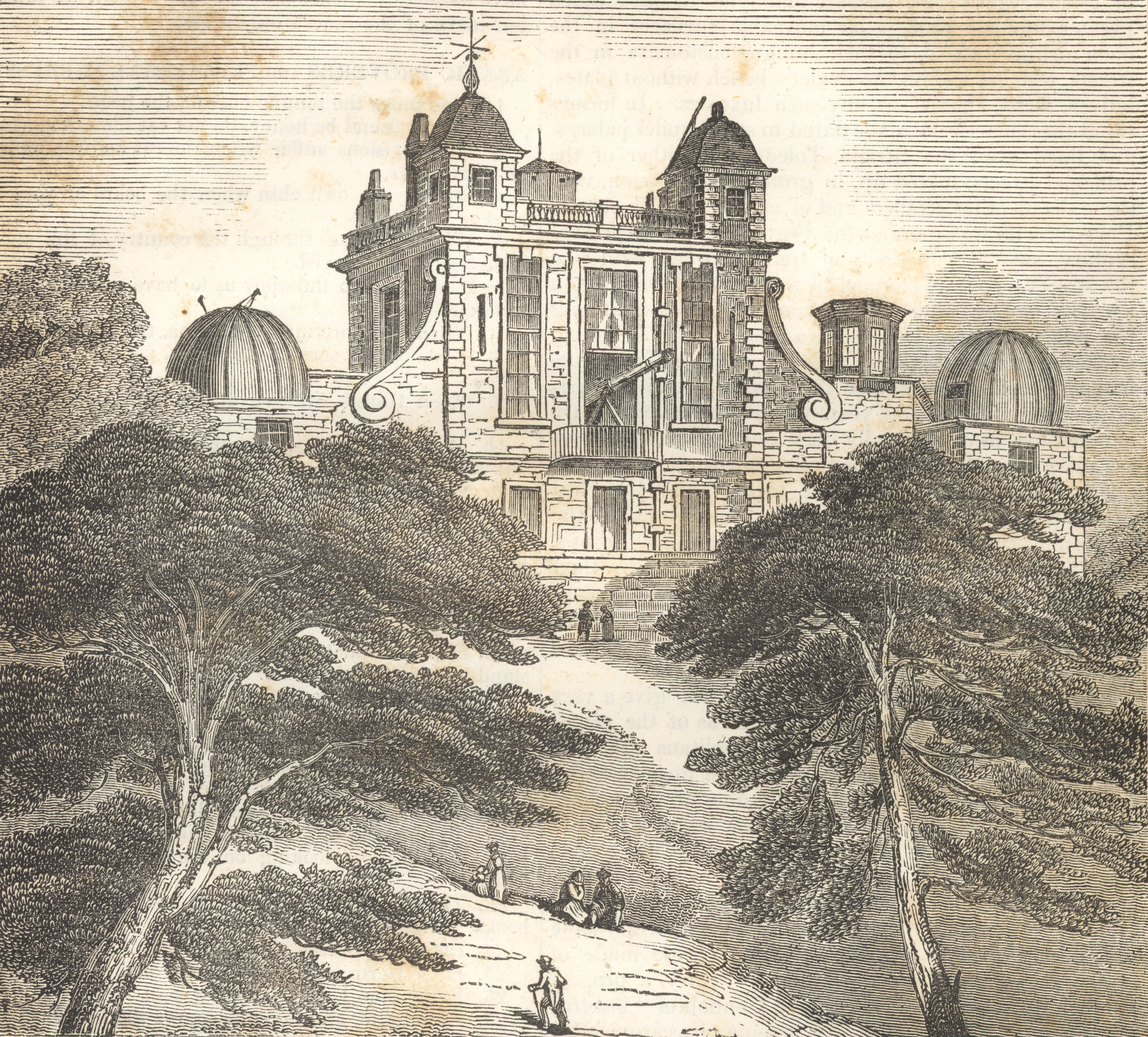 Greenwich Observatory, image published in "The Penny Magazine", Volume II, Number 87, August 10, 1833.